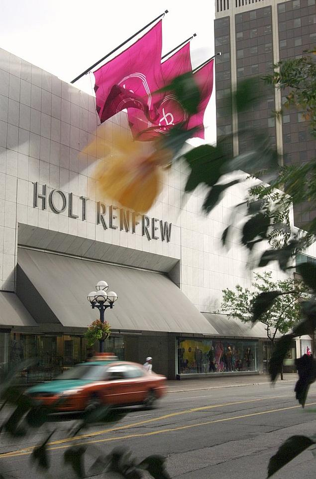 Holt Renfrew flagship store on Bloor Street, Toronto, Canada.